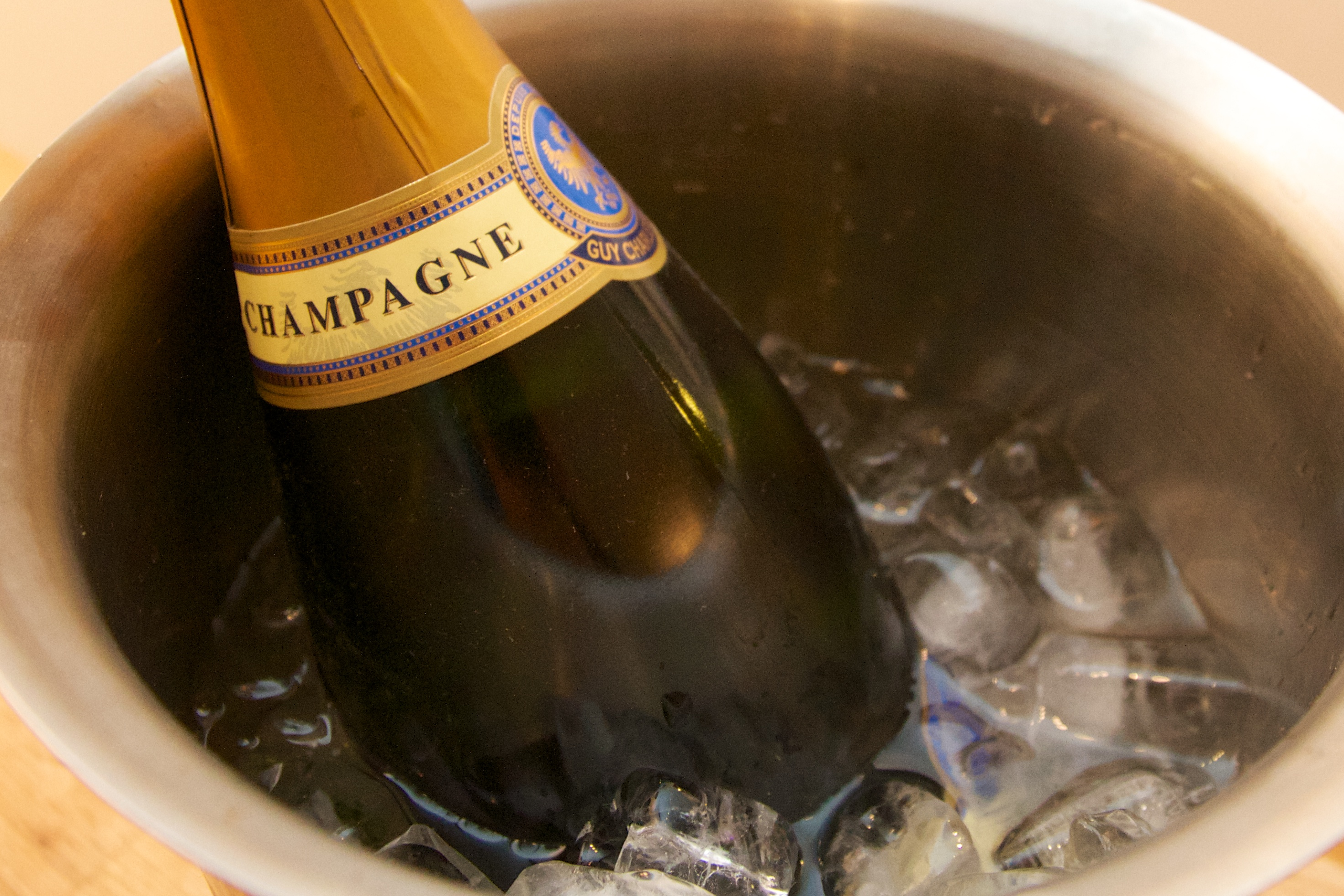 A bottle of Champagne Guy Charlemagne in a cooler.